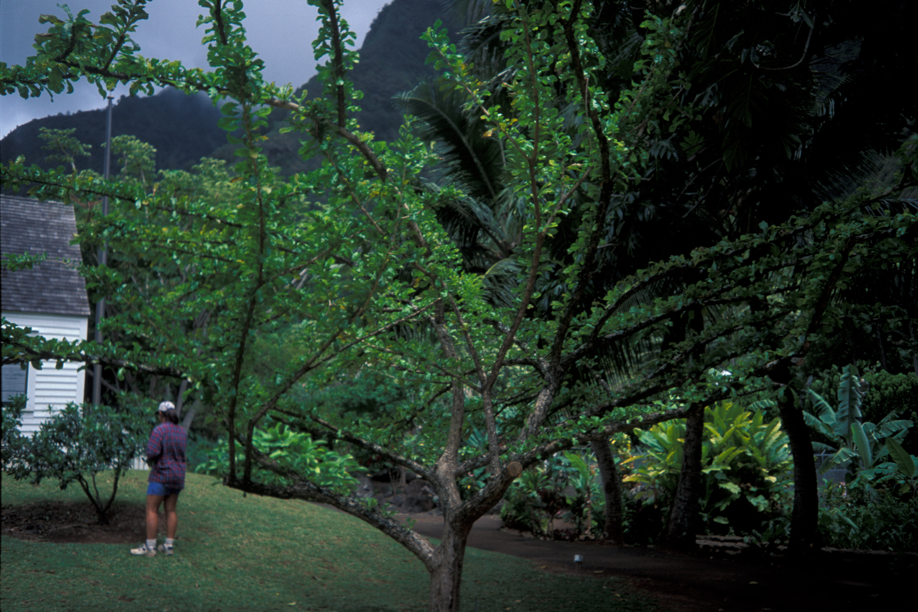 Crescentia cujete (habit). Location: Maui, Kepaniwai